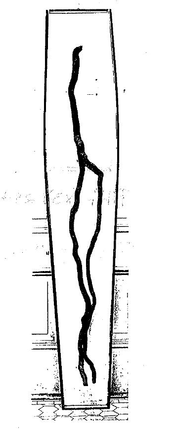 This is a public domain nineteenth century picture of the Roger Williams Root now in the collection of the Rhode Island Historical Society.